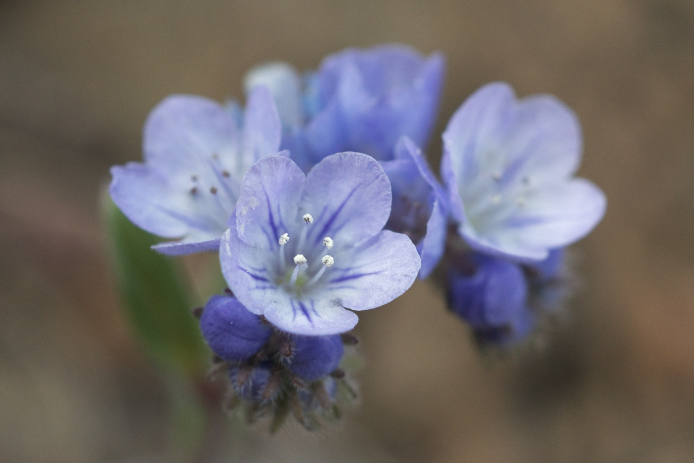 Species from California Common name: Brewer's Phacelia Photographed on the North Peak Trail, Mt. Diablo, Contra Costa County, California